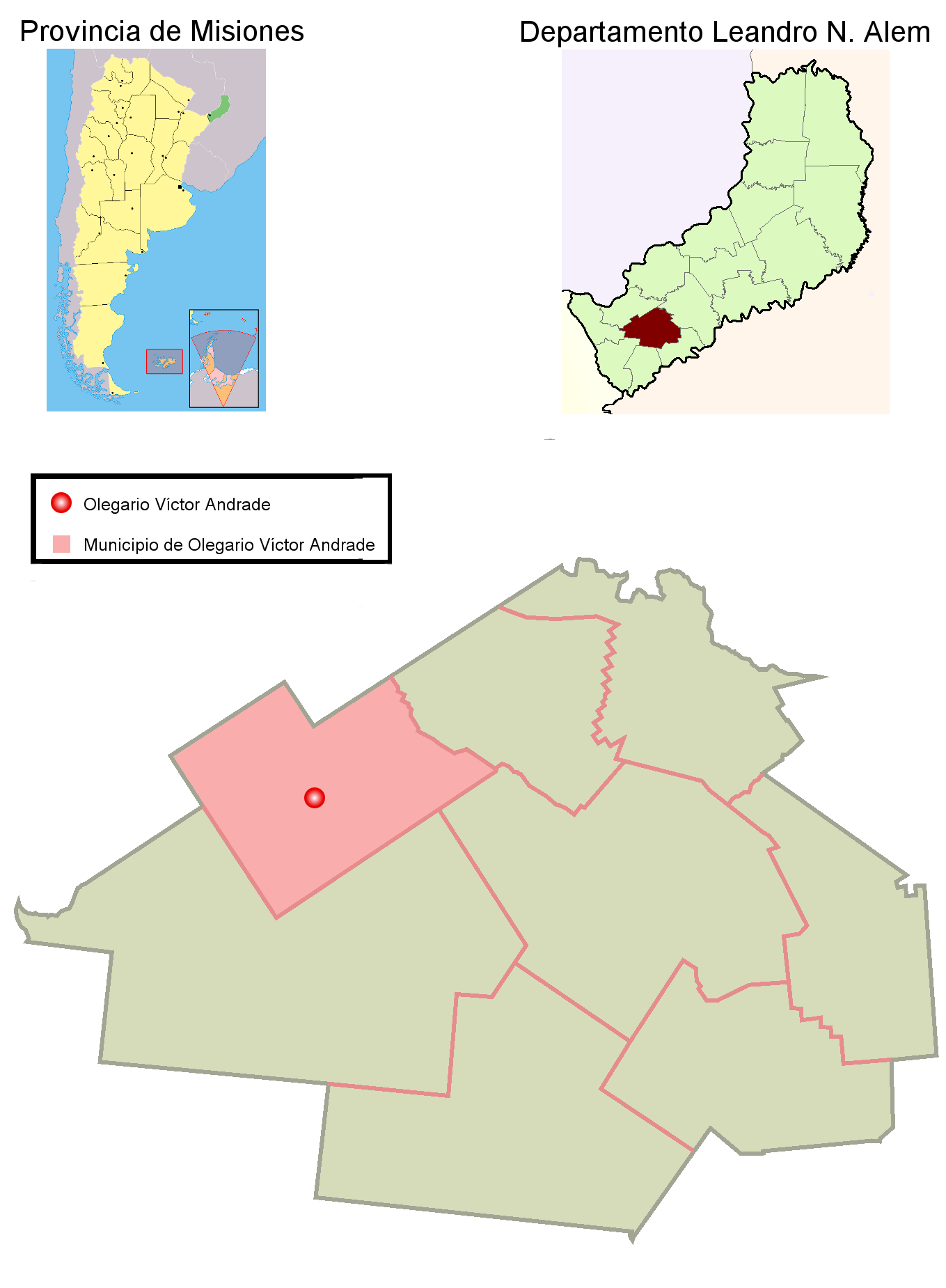 Map showing municipio of Olegario Víctor Andrade in Leandro N. Alem department, Misiones Province, Argentina. The red point marks Olegario Víctor Andrade town.